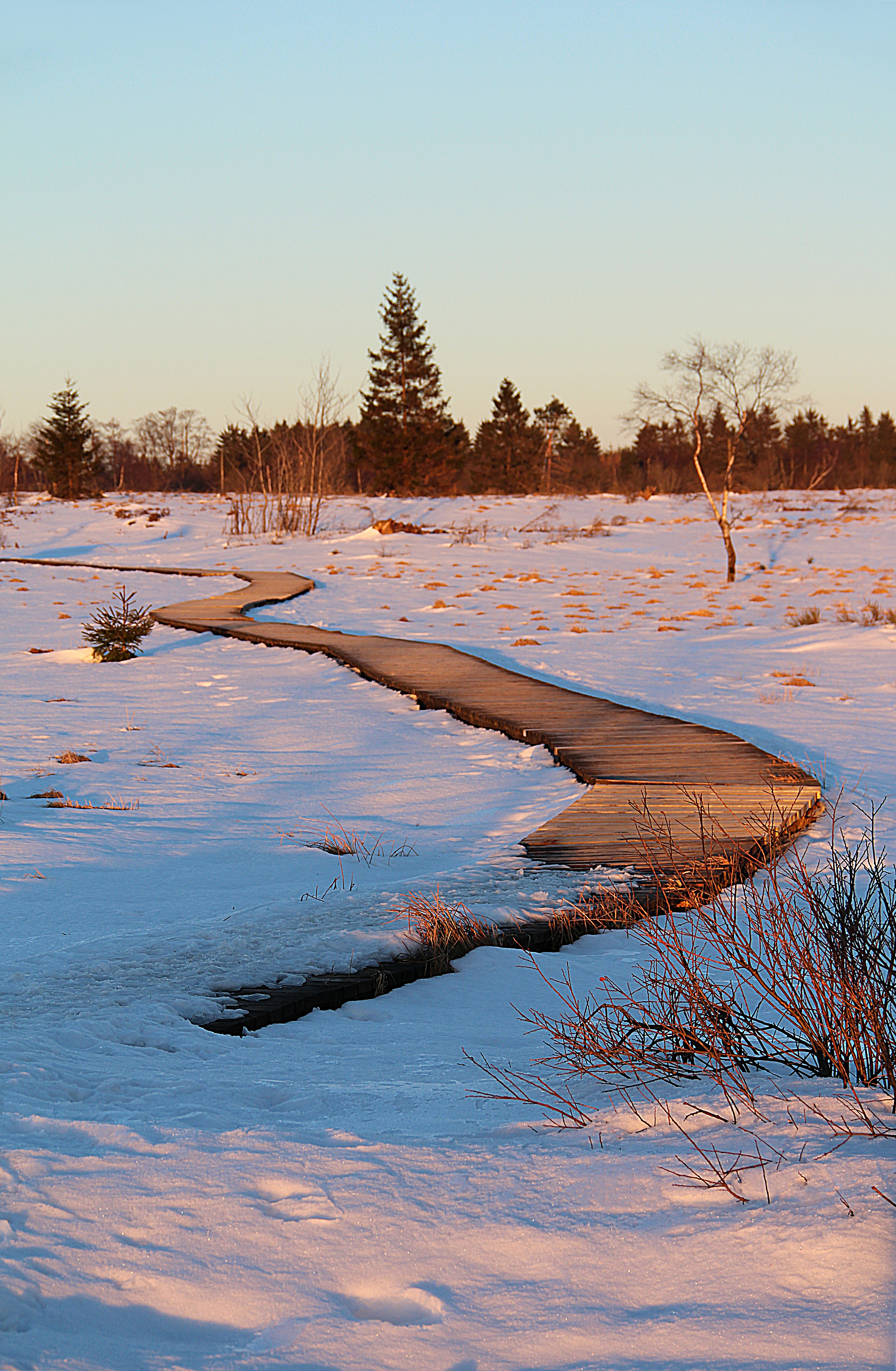 Xhoffraix - High Fens (Belgium), Grande-Fagne and boardwalks of the « Vecquée ».